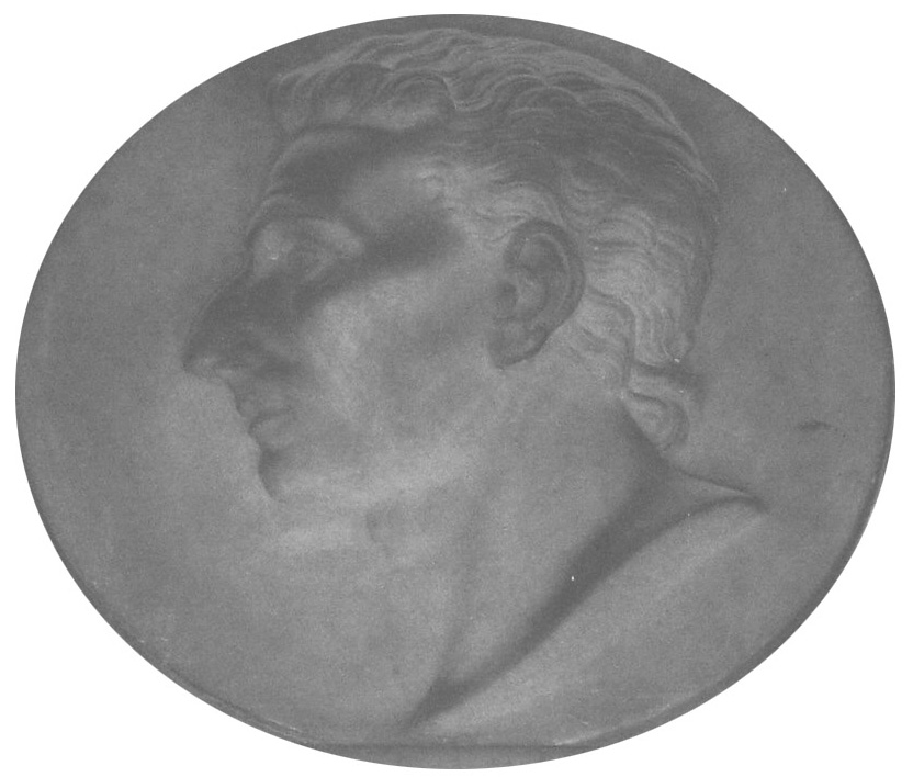 Portrait of Gian Giacomo Albertolli